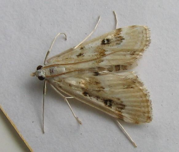 Parapoynx stratiotata (Linnaeus, 1758) (Pyraloidea, Lepidoptera), Groß Machnow, Brandenburg